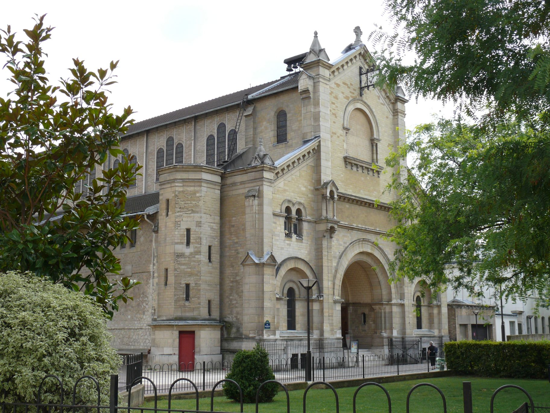 Notre-Dame-du-Travail's church (Paris XIV, France)